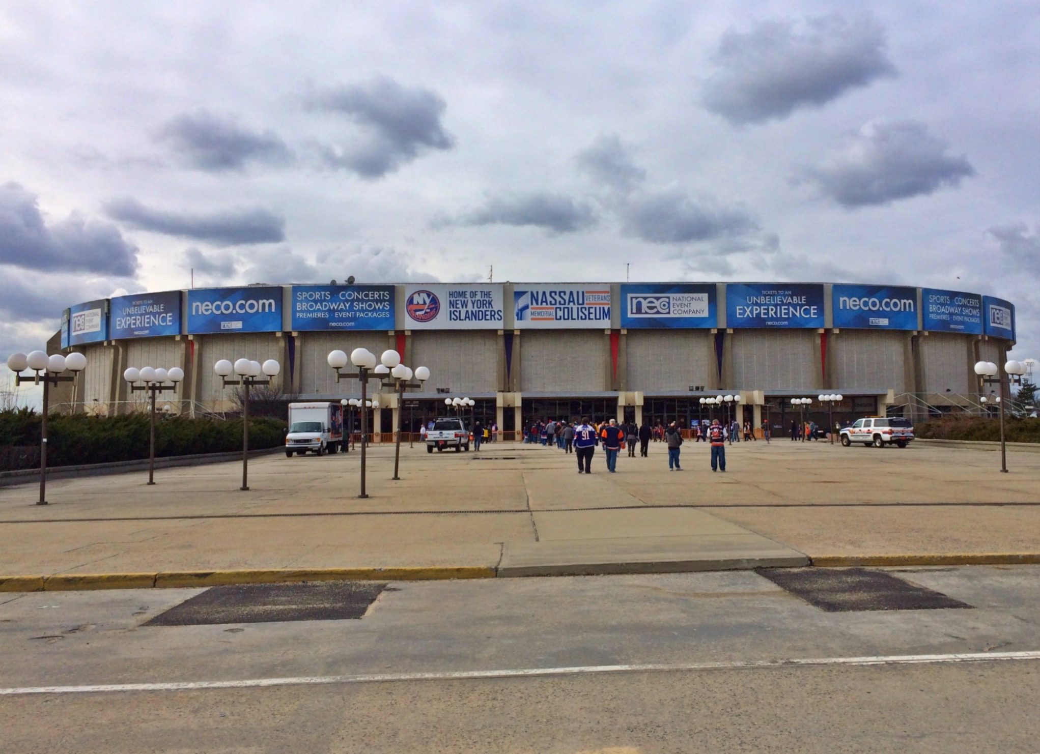 Nassau Coliseum in early 2015.